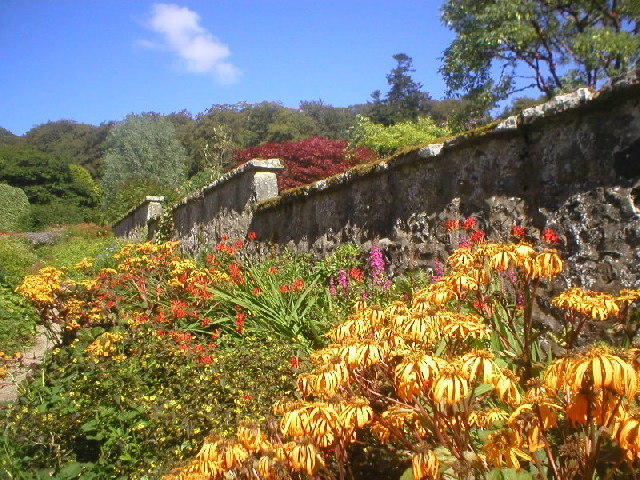 Leith Hall Gardens. Unfortunately the plants have taken a battering from recent heavy rain.